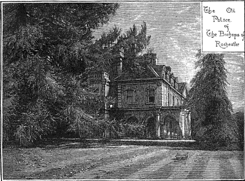 Engraving from Walford, Edward. "Greater London: a narrative of its history, its people, and its places" (Adamant Media Corporation, 1894).